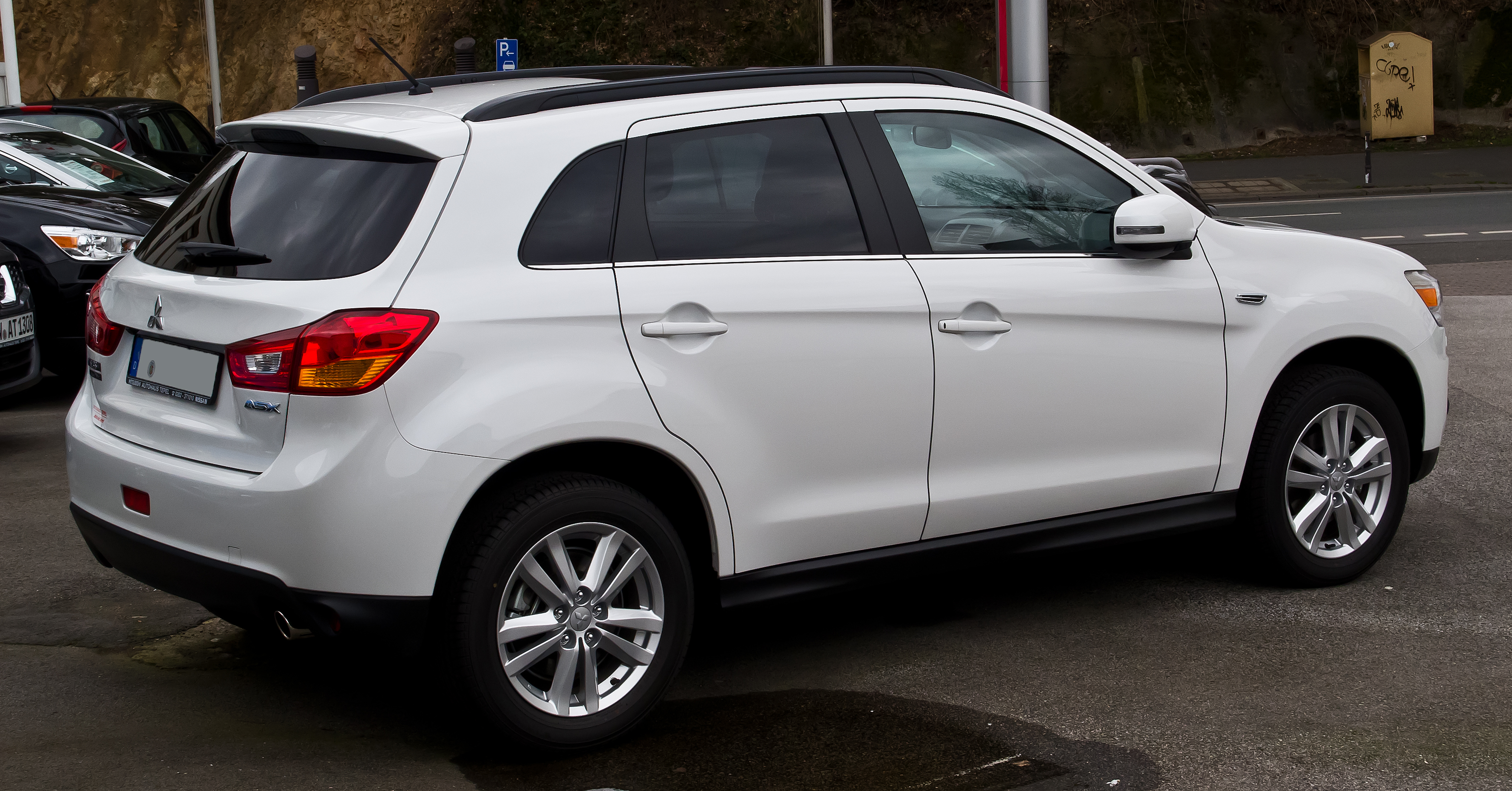 Mitsubishi ASX 1.8 DI-D+ ClearTec 4WD Instyle (Facelift)